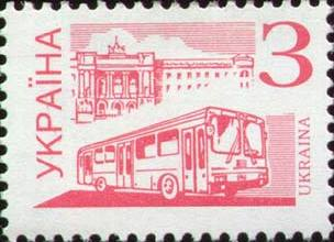 Stamp of Ukraine